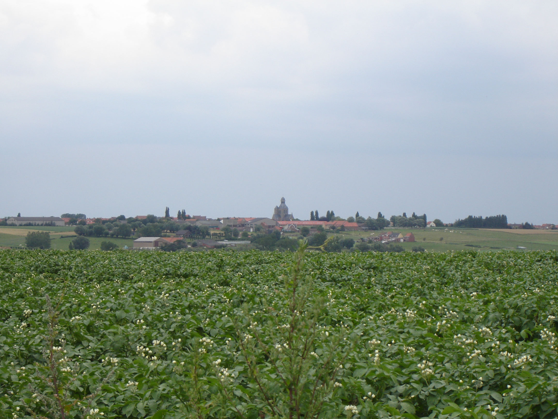 View on the city of Mesen, as seen from the Wulvergemstraat street, south west of Wijtschate. Mesen, West Flanders, Belgium.